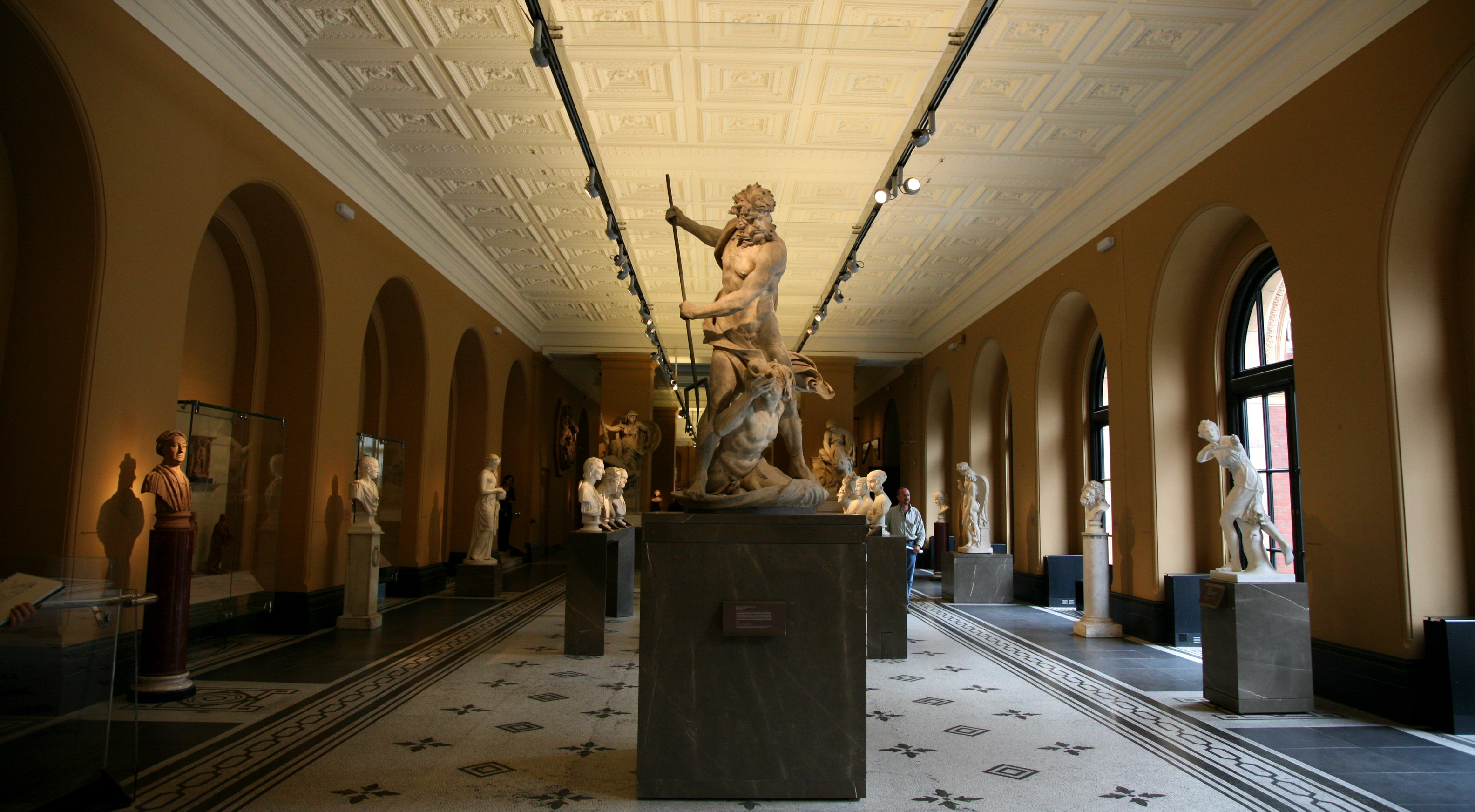 At Victoria and Albert Museum, London, England.